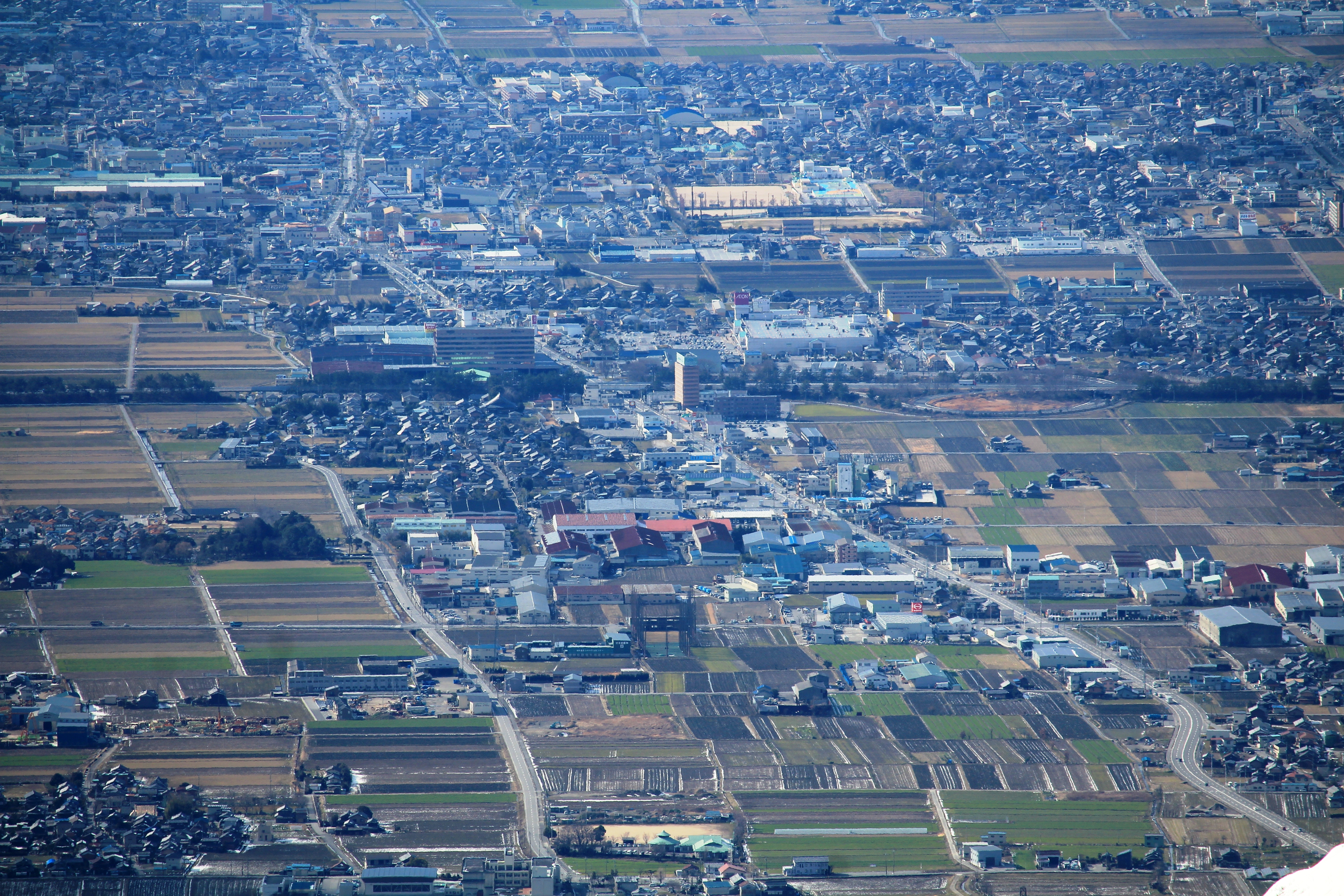 Shiga Prefectural Road Route 37 seen from Mount Ibuki in Naghama, Shiga prefecture, Japan.